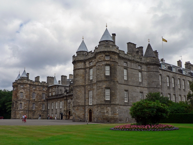 Royal Palace of Holyroodhouse, The Queen's official residence in Edinburgh.